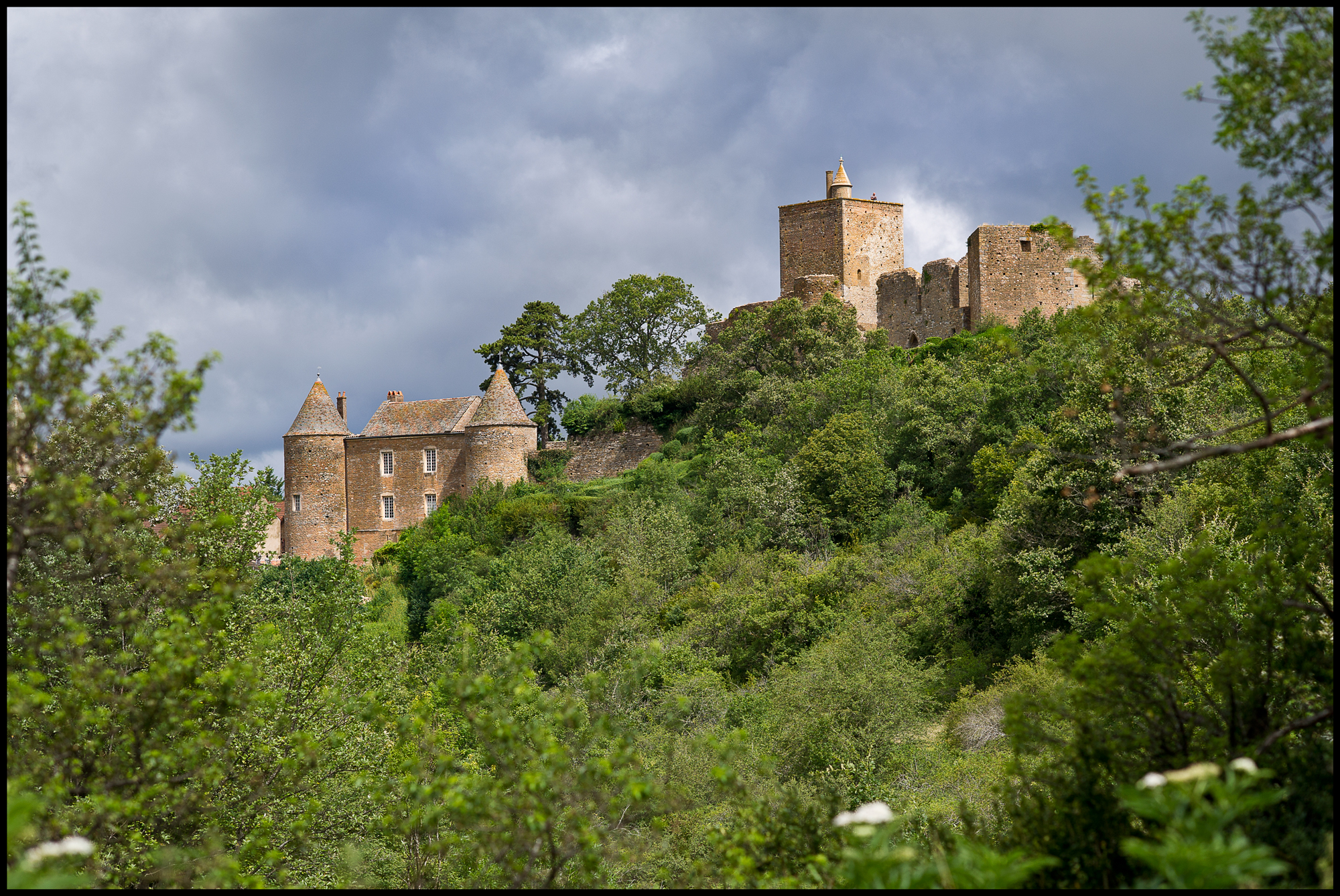 Brancion castle